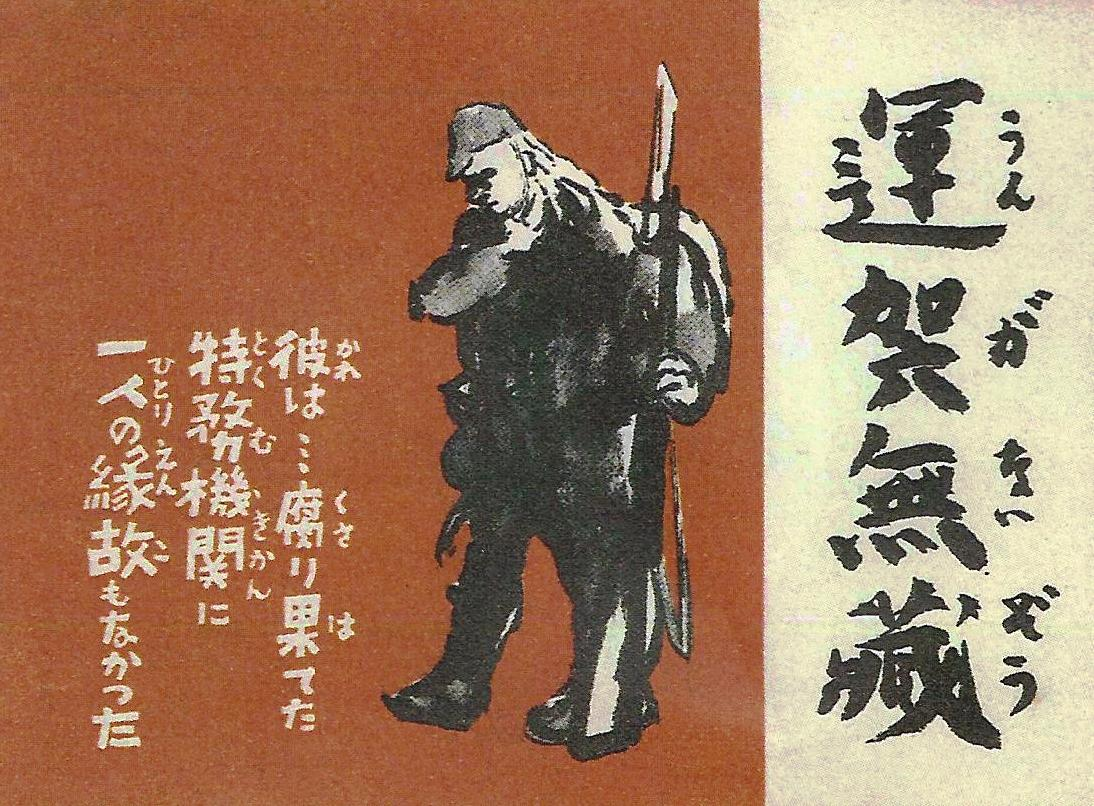 This propaganda leaflet was dropped to Japanese military in the Guam by US Armed Forces.